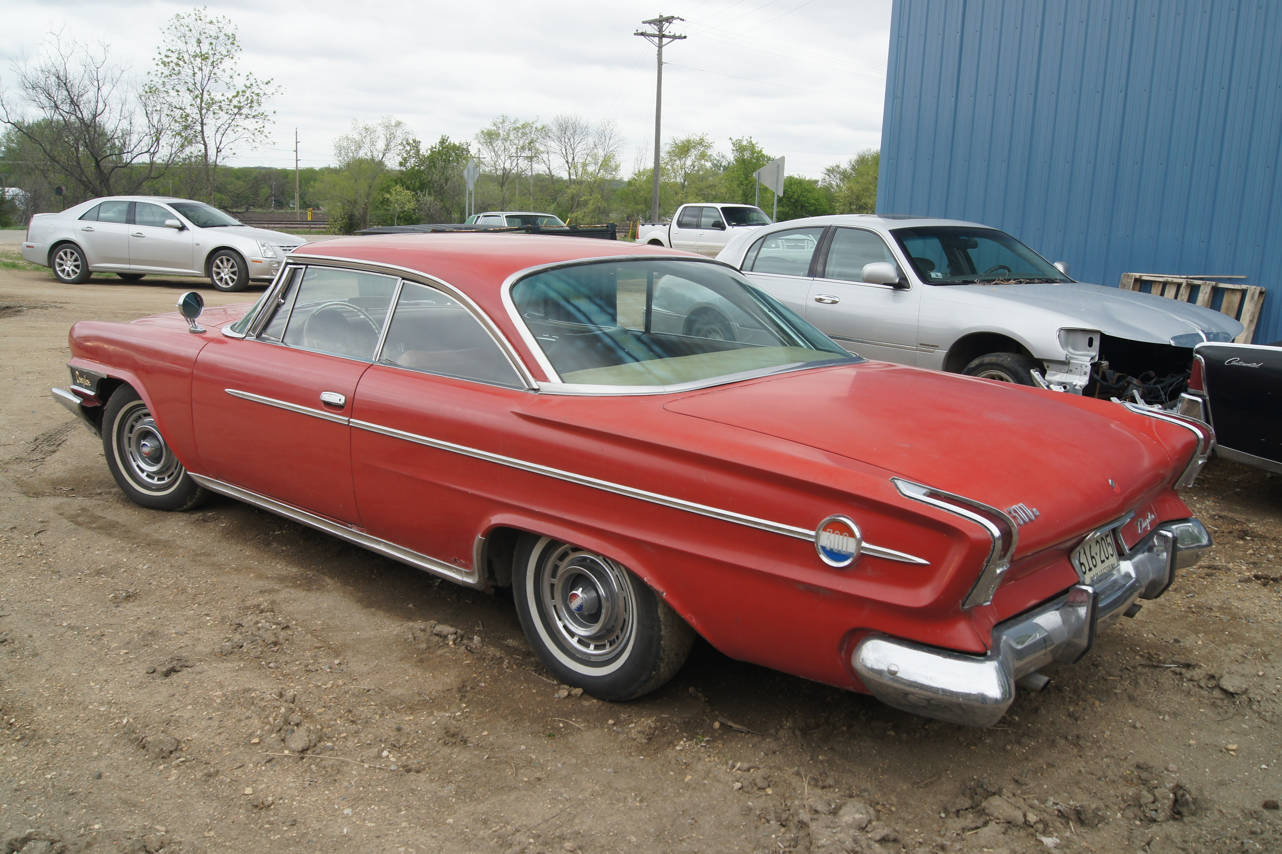 Click here for more car pictures at my Flickr site.